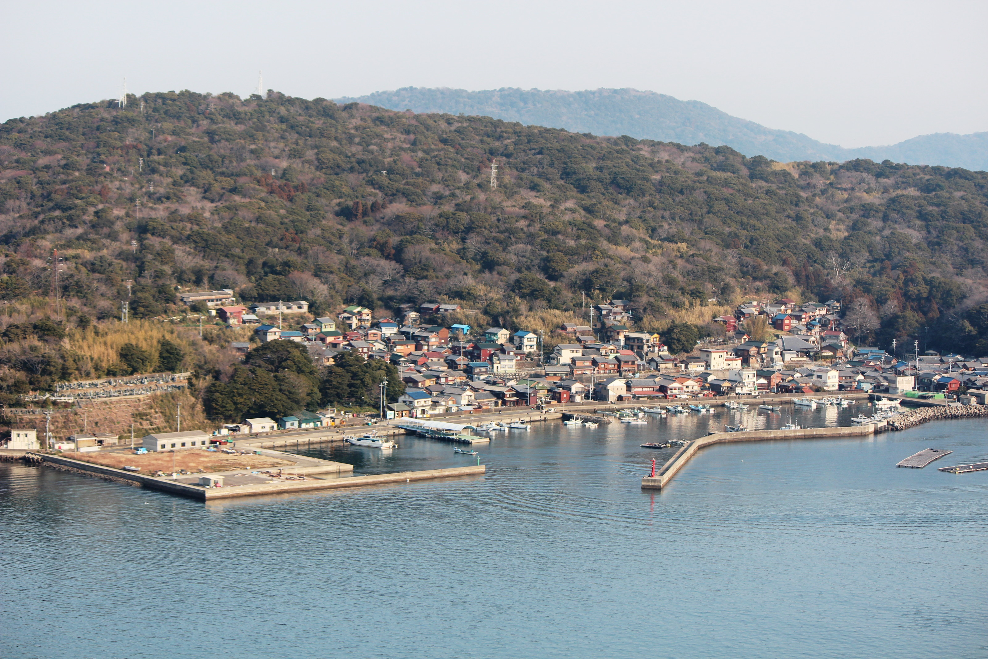 Port of Sakate Island (Sakate-jima), in Toba city, Mie prefecture, Japan.